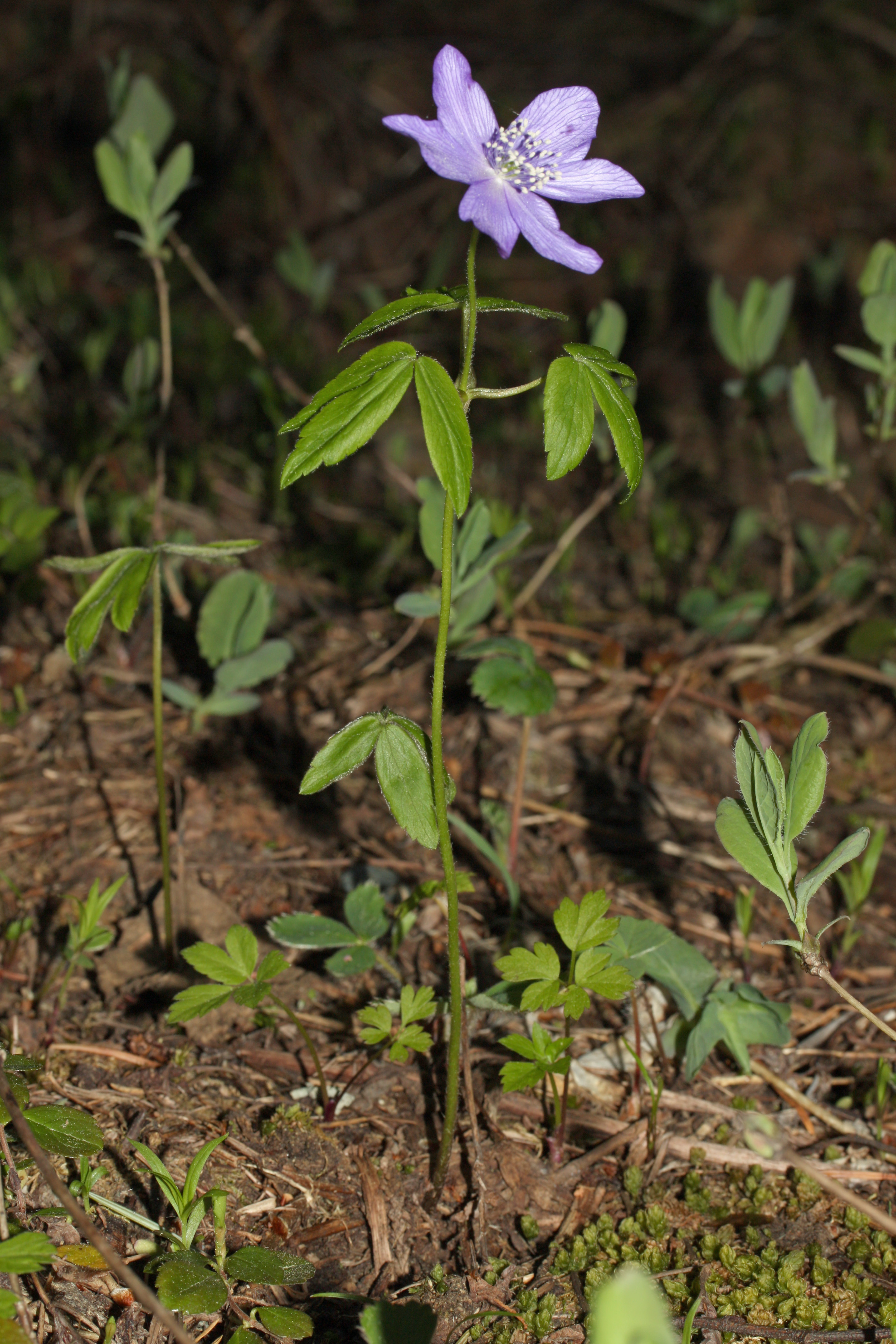 Oregon Anemone